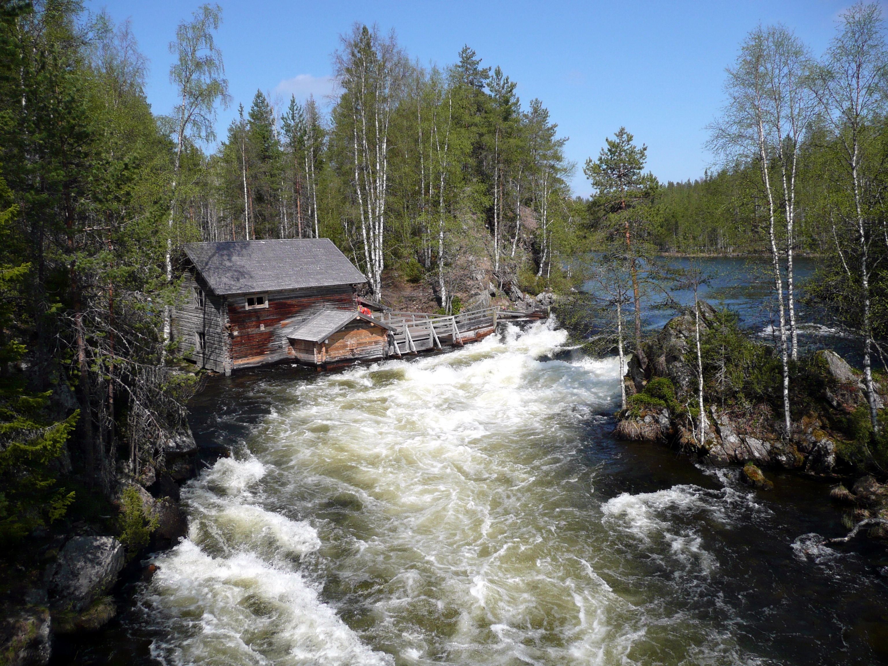 Oulanka National Park, Myllykoski